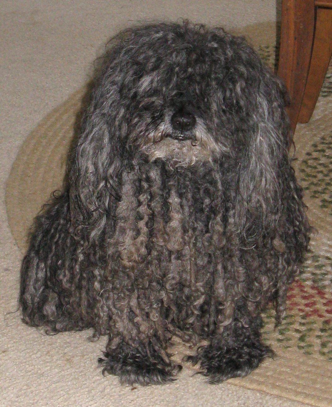 A grey Puli dog. About 12 years old, male, grey from birth.